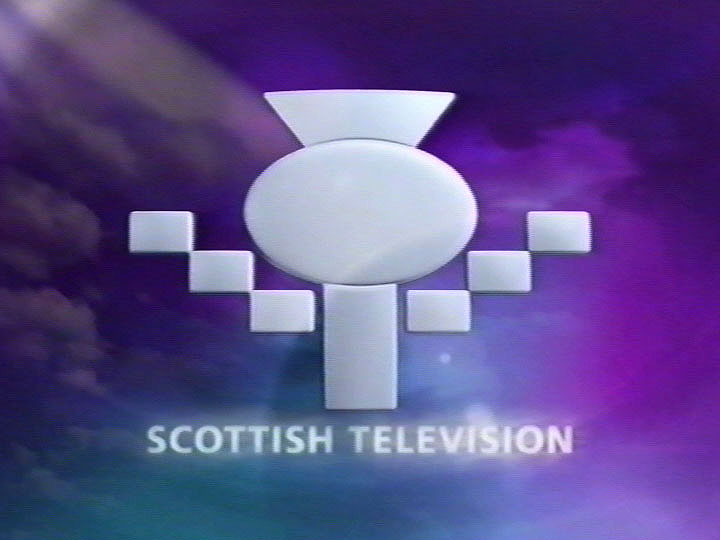 Still frame from animated ident for Scottish Television produced by Liquid Image.